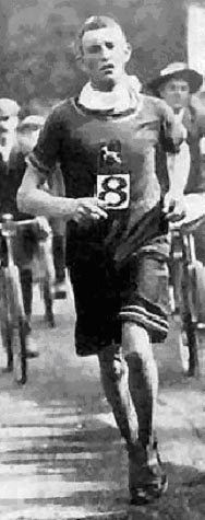 Athlete Charles Hefferon won the silver medal at the 1908 London Olympics. photography, adapted reproduction, no restrictions on use Copyright: free of charges